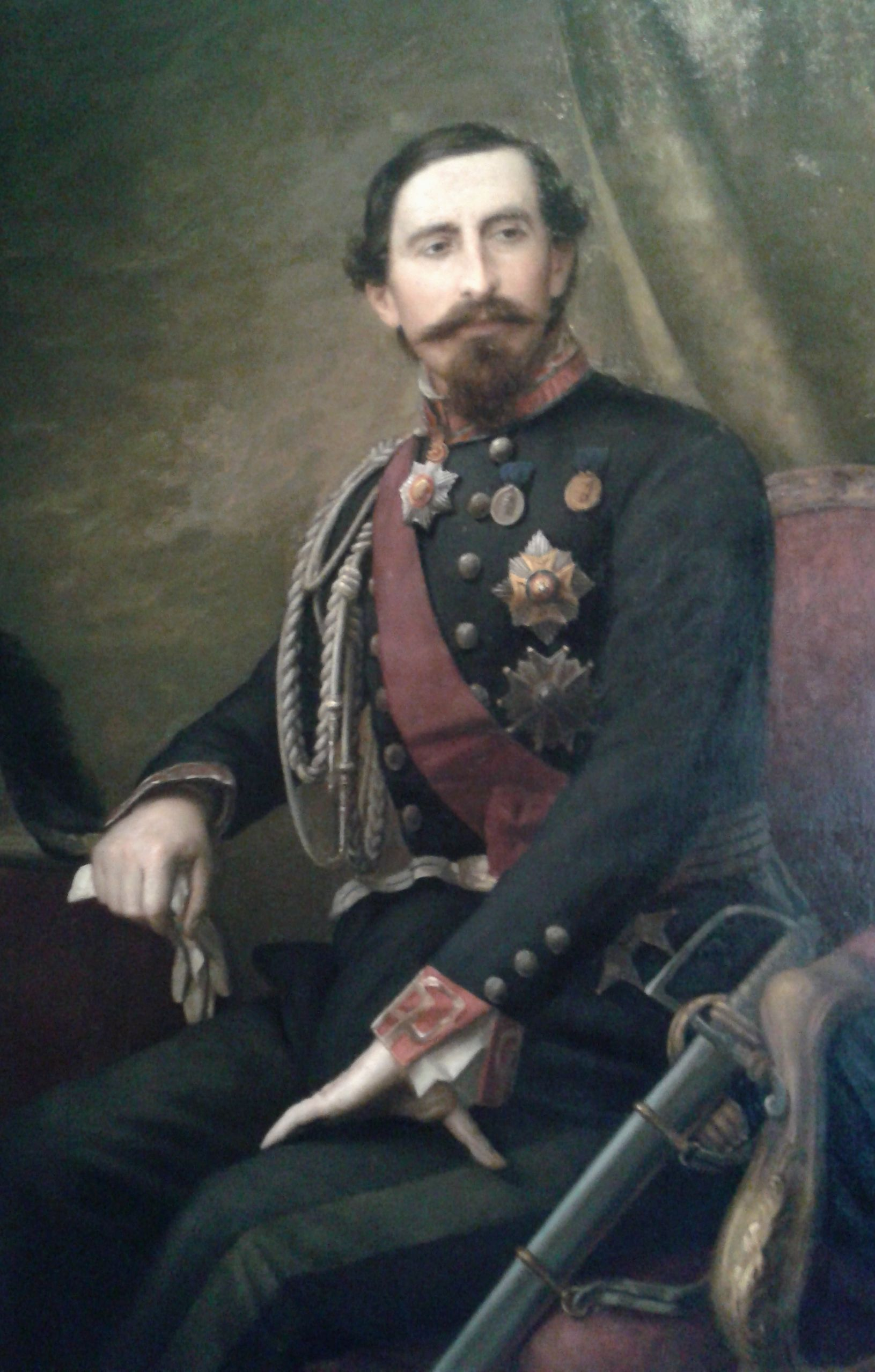 Portrait of italian general Alfonso La Marmora (1823-1866)